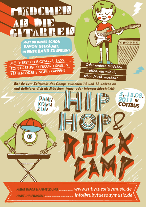 Ruby Tuesday, Rock Camp for Girls, Cottbus 2011. Flyer / Poster.